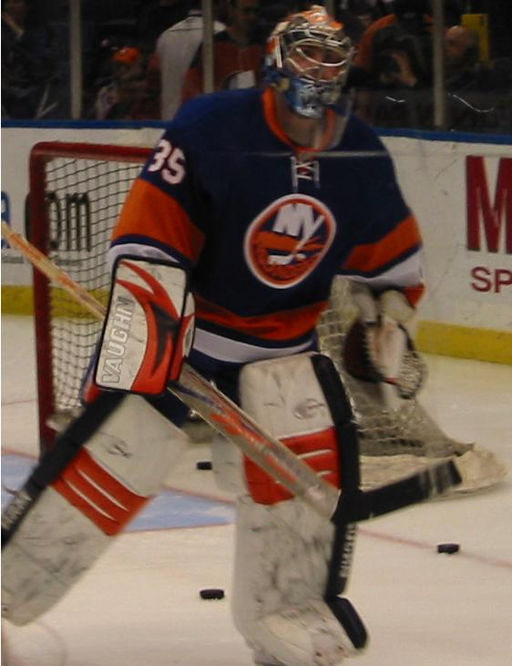 Joey MacDonald at a New York Islanders game